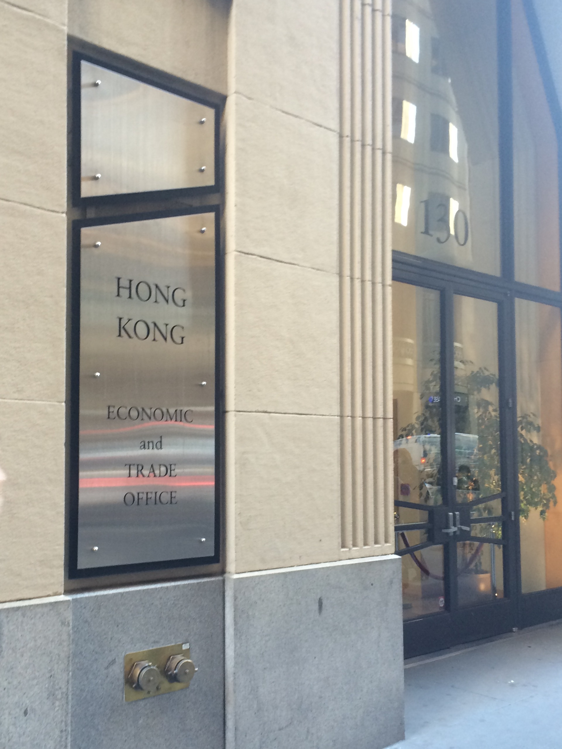 Hong Kong Economic and Trade Office in San Francisco, California